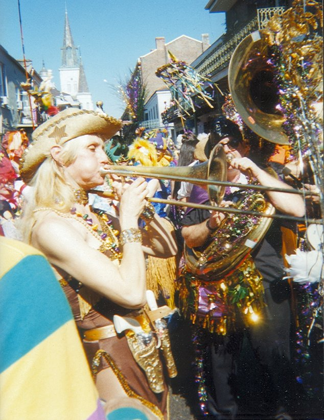 Woman costumed as cowgirl plays trombone; sousaphone player seen behind at right. Charters Street, French Quarter, New Orleans, Mardi Gras Day, 1998. Photo by Infrogmation